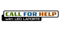 This is the Canada Call For Help logo